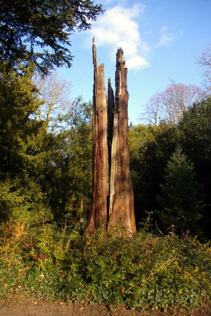 Lightning tree Stark proof that, despite the adage, lightning can strike the same place twice. This giant redwood (Sequoiadendron giganteum) just outside Anglesey Abbey was struck on 5 July 1999 for the second time in twelve years.